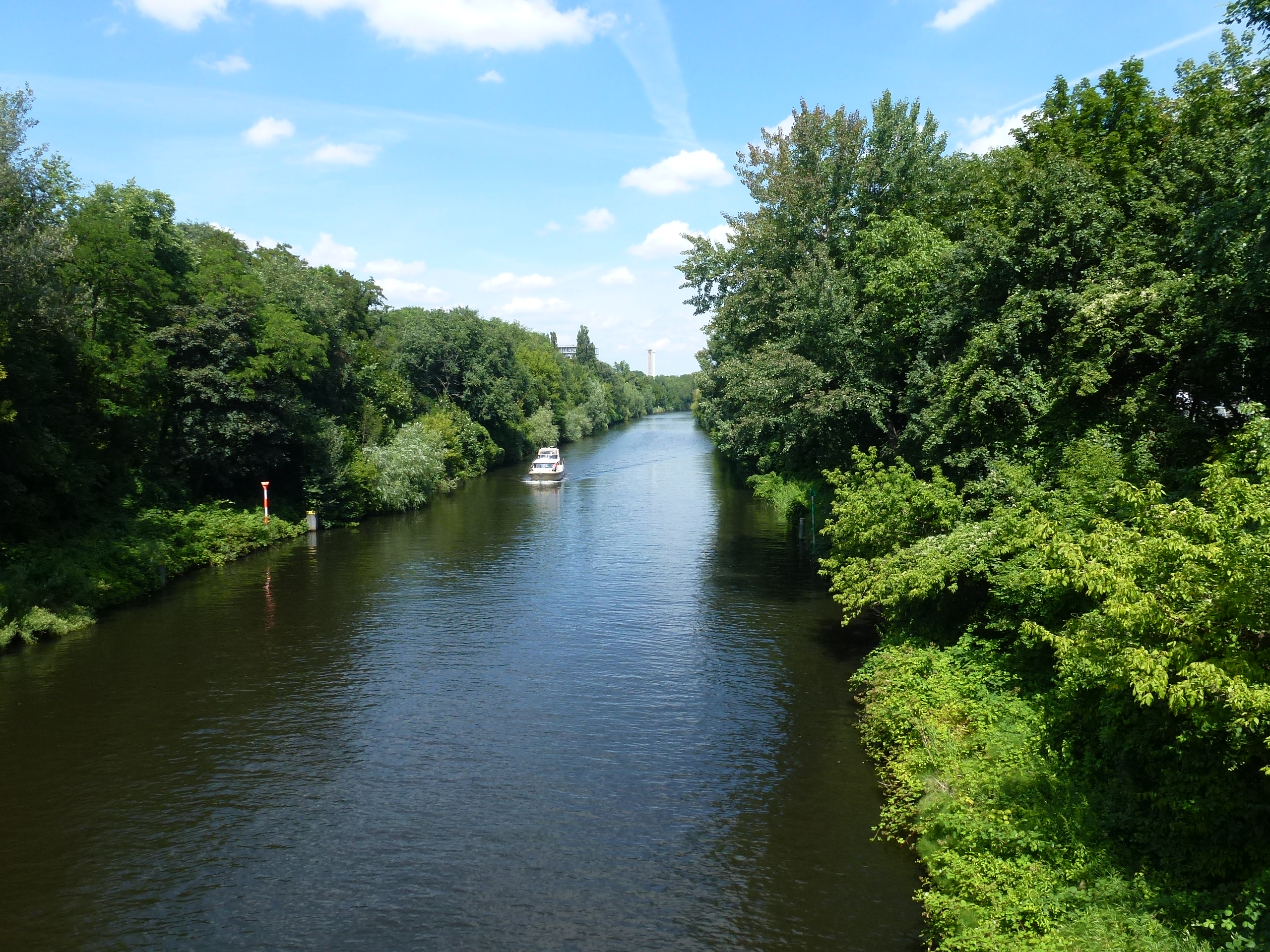 Berlin-Lichterfelde Park am Teltowkanal